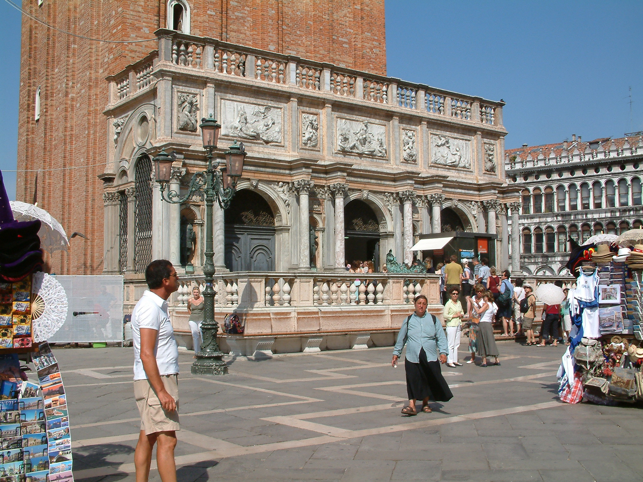 All without Venice, Loggetta del Sansovino. Photo by Maria Schnitzmeier.